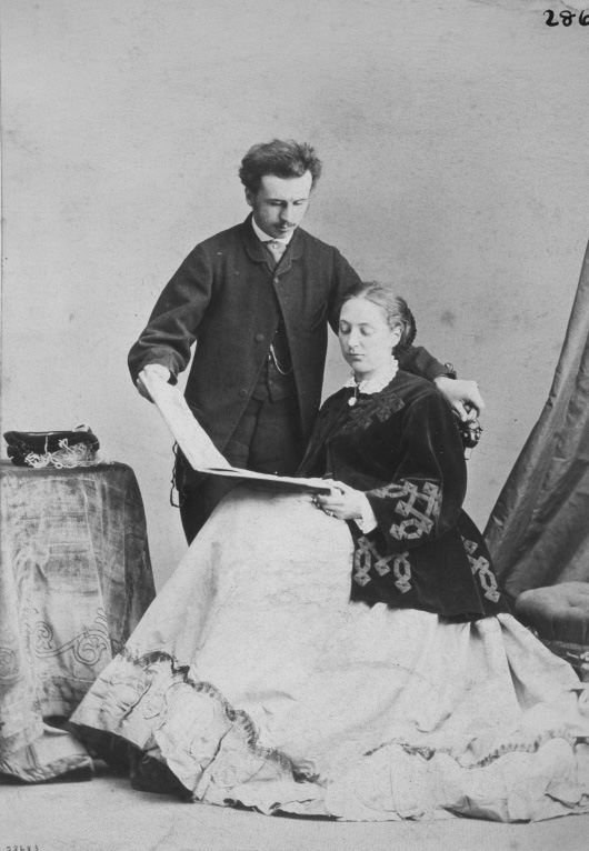 Lord and Lady Amberley in Montreal, Quebec, Canada